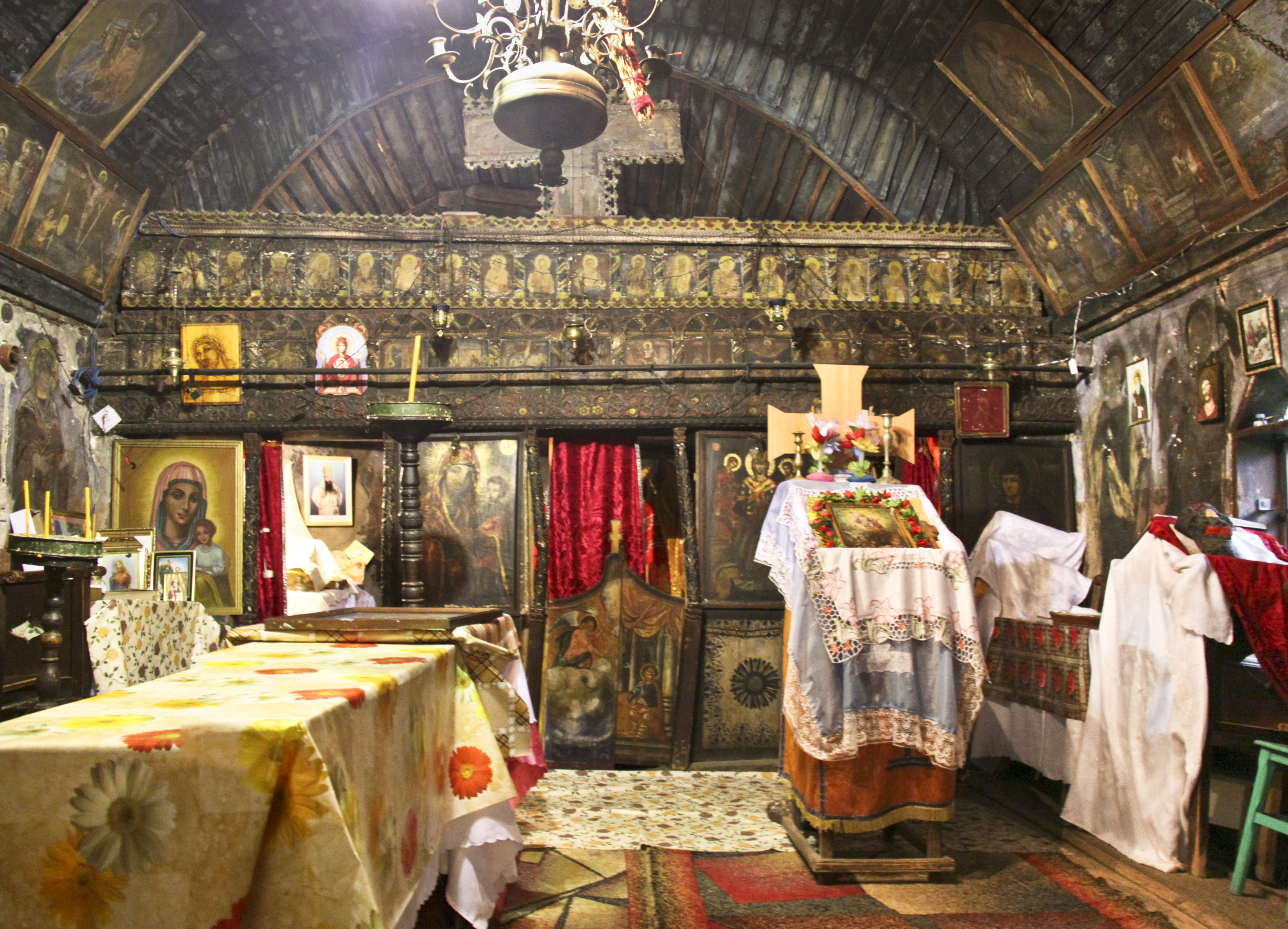 Drăceşti, Teleorman county, Romania: the wooden church.